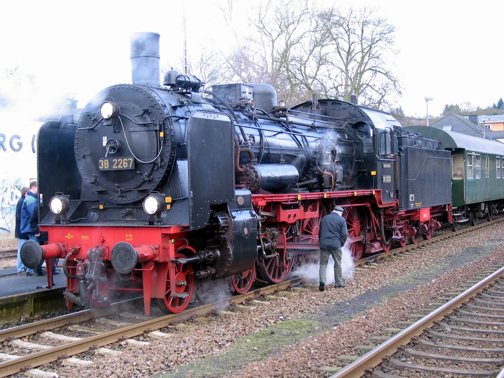 Steam locomotive Prussian P8 (DRG Class 38). Belonging to the railway museum Bochum-Dahlhausen.